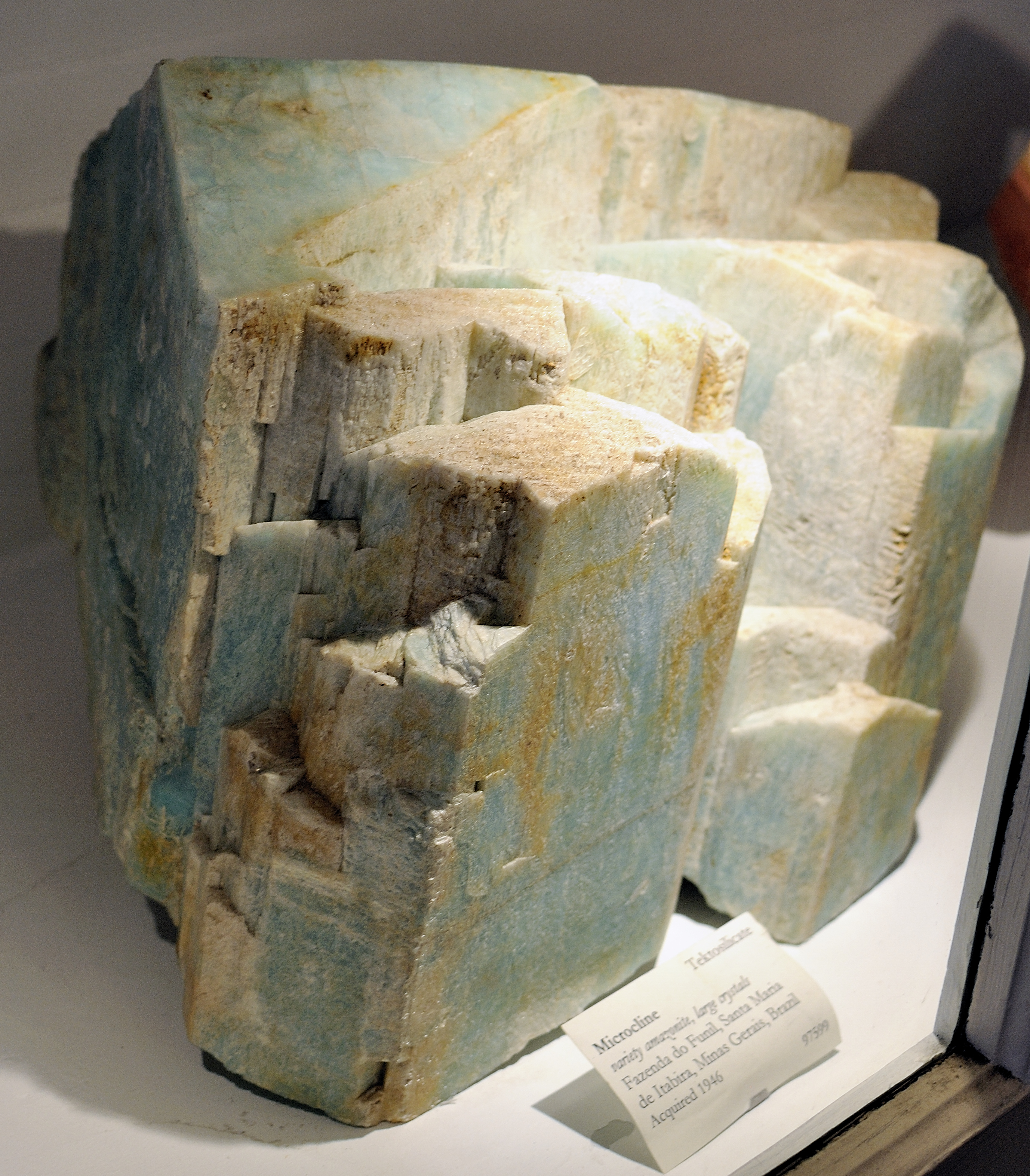 Harvard Museum of Natural History. Microcline. Fazenda do Funil, Santa Maria de Itabira, Minas Gerais, Brazil.